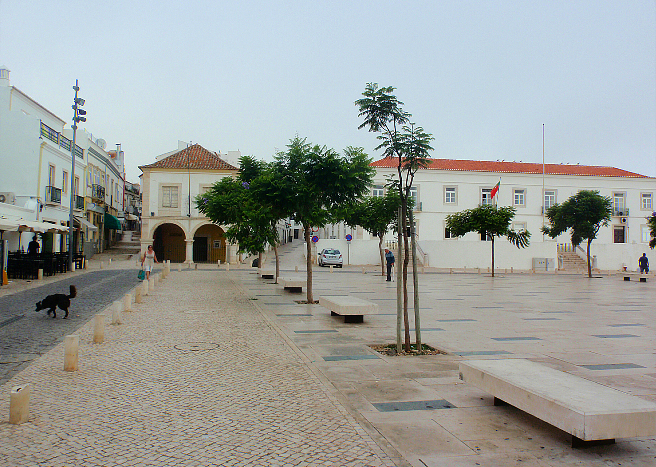 The building with the double arch once housed the slave market in town of Lagos, Algarve, Portugal. The building is located on the Praça Infante Dom Henrique and is classified as a monument of public interest. It was built in 1691 although the trade in slaves from Africa began on this sight in the mid fifteenth century and from here slaves were shipped throughout Europe at great profit to the Portuguese monarchy and merchants of lagos.